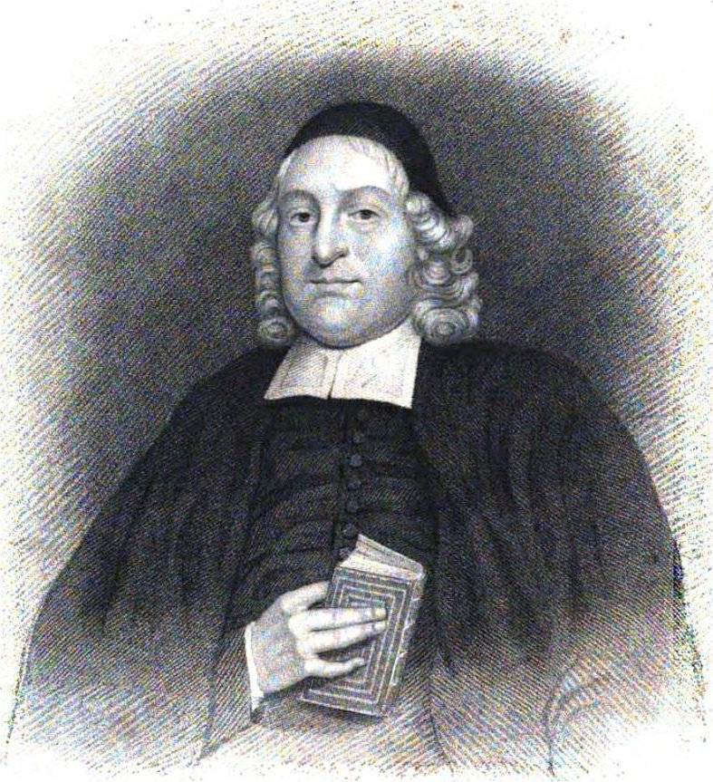 Oliver Heywood